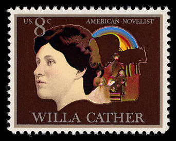 This file contains an image of a stamp issued by the US postal Service in 1973 honoring Willa Cather.